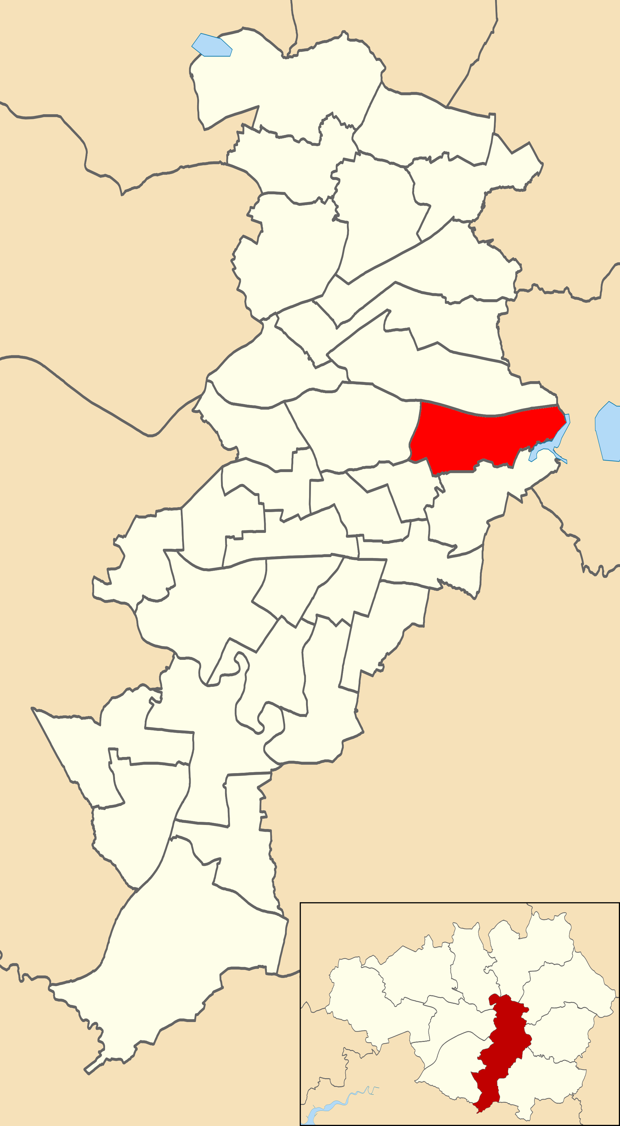 Map showing location of Gorton North ward within Manchester City Council.